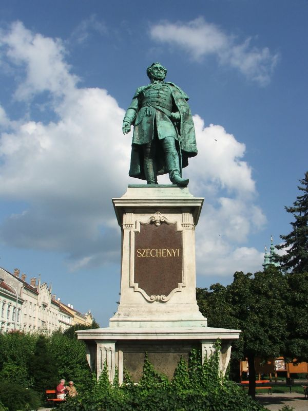 István Széchenyi statue in Sopron